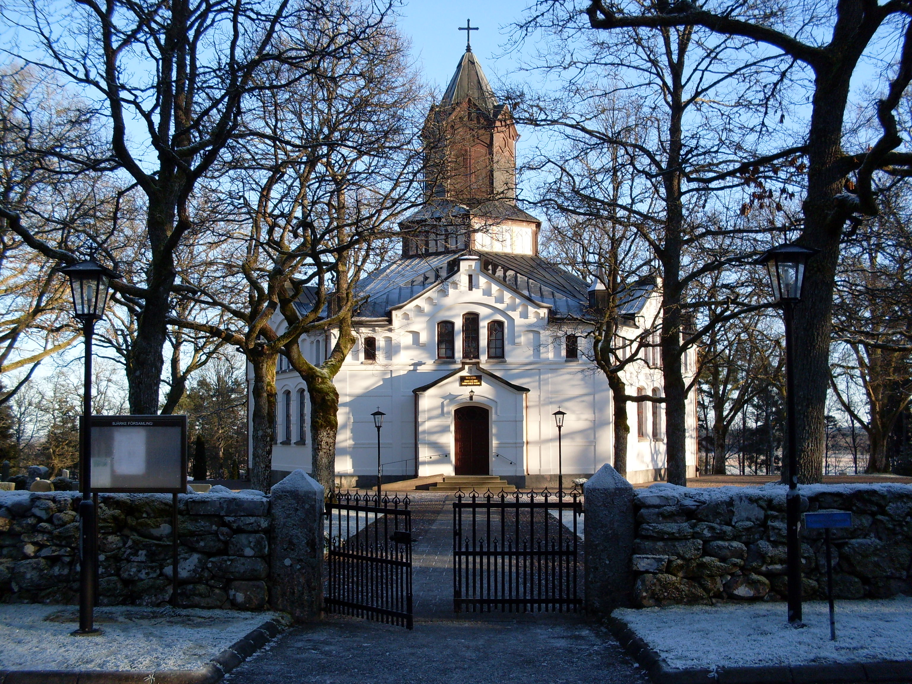 Erska church photographed in wintertime 2009.